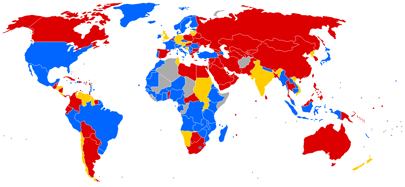 World map of travel and residence restrictions against people living with HIV/AIDS. blue: no specific entry and regulation targetting people with HIV/AIDS. orange: information is contradictory, restrictions are possible. red: entry and residency restrictions confirmed. gray: no information on the situation in the country.